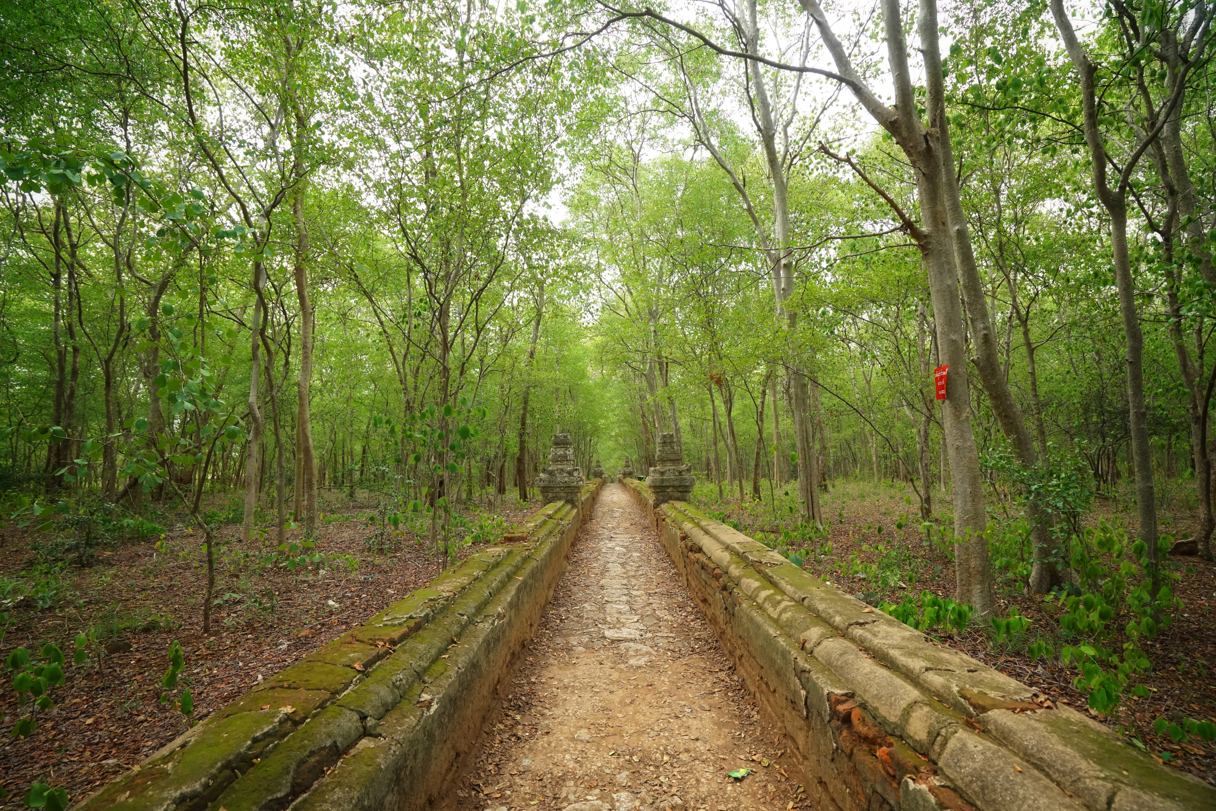 Shein Makkar Taw Ya monastery and wildlife sanctuary are popular attractions in the Sagaing Region.